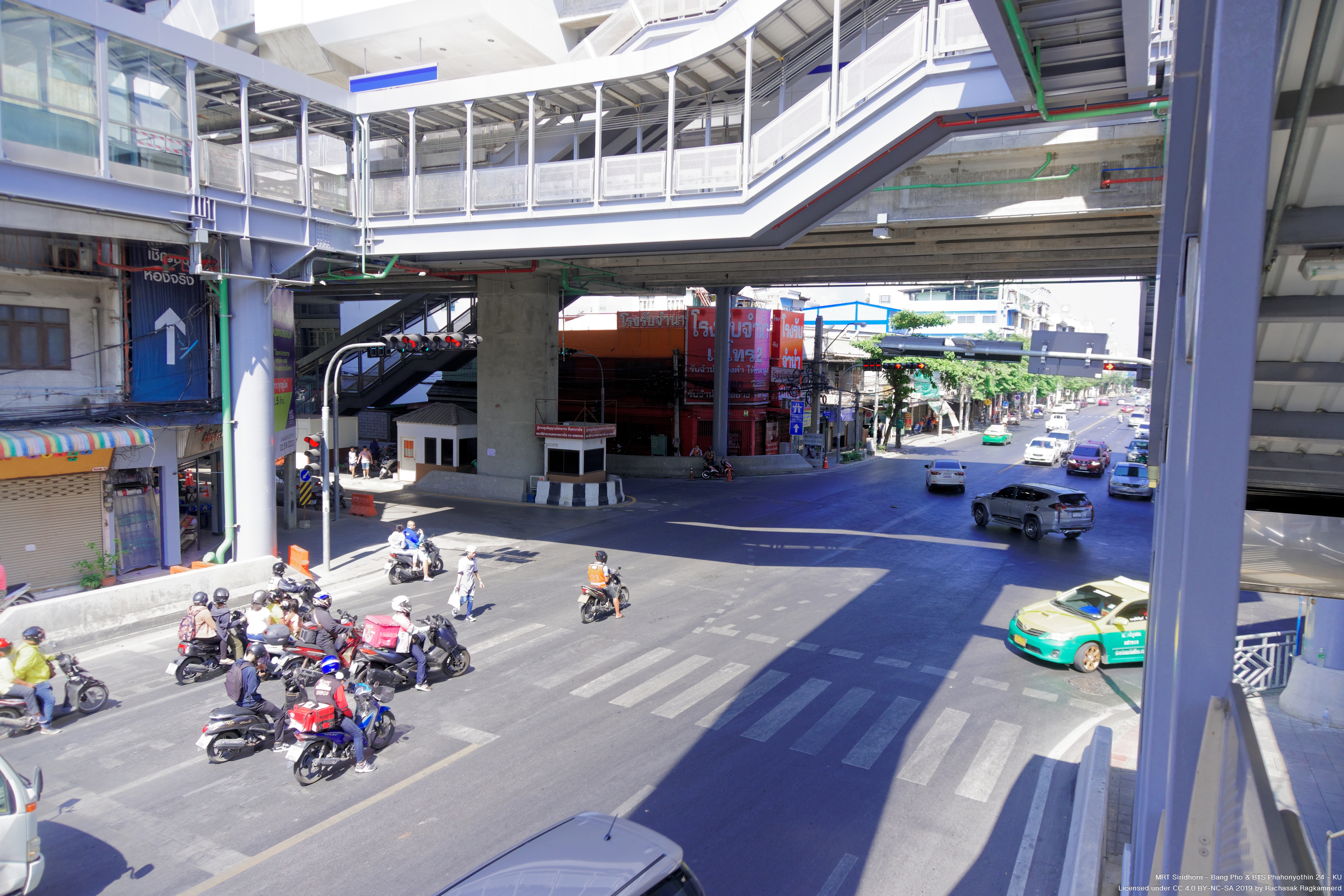 MRT Bang Pho - Pracha Rat intersection